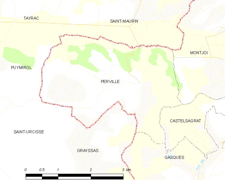 Map of French municipality Perville